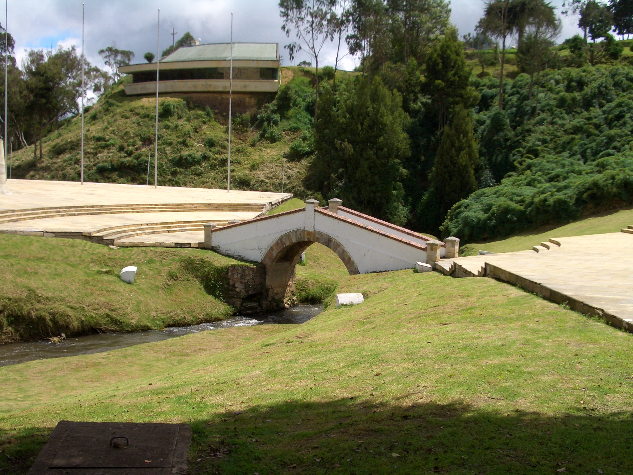 Puente de Boyacá (Bridge of Boyaca) as of today. The original bridge was just a plattform to cross the river and its exact location is unknown.